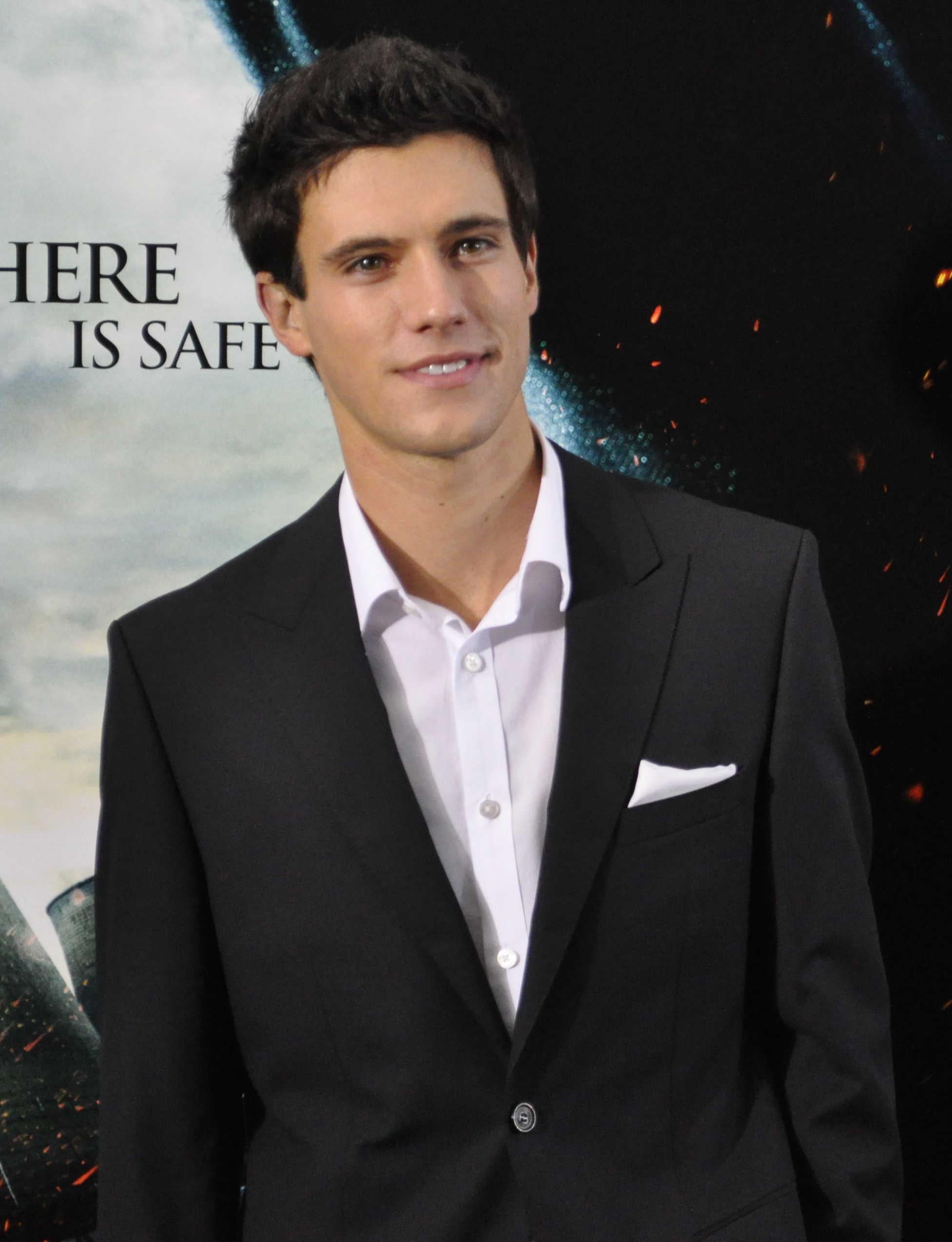 Drew Roy at the film premiere of Harry Potter and The Deathly Hallows in Alice Tully Center, New York City in November 2010.